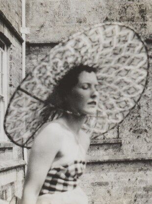 (Helen) Diana (née Bridgeman), Lady Abdy possibly by Lady Evelyn Hilda Stuart Moyne (née Erskine) bromide print, circa 1934 2 3/8 in. x 4 1/8 in. (61 mm x 104 mm) image size Given by Martin Plaut, 2014 Photographs Collection NPG x183313